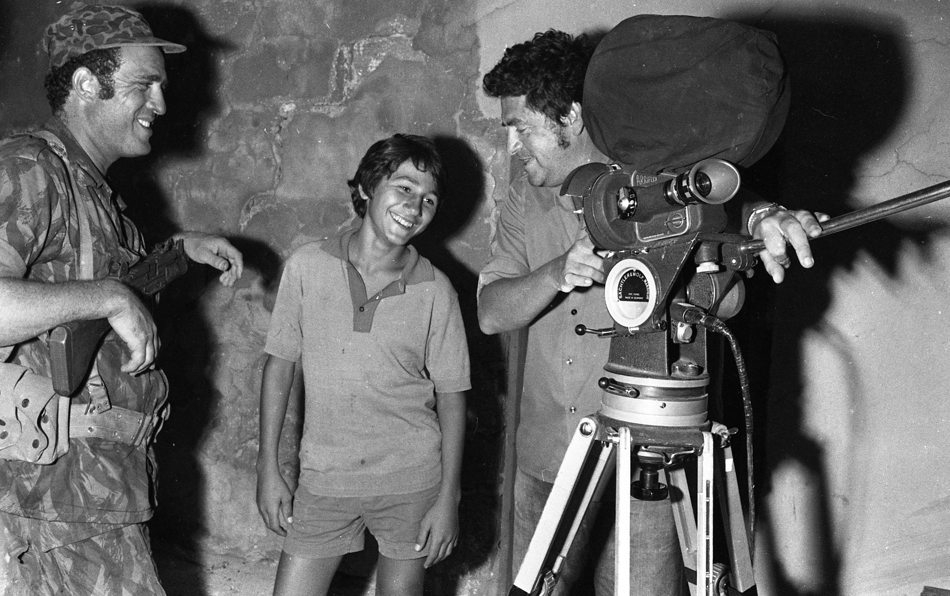 Making the film "Attack at Dawn".